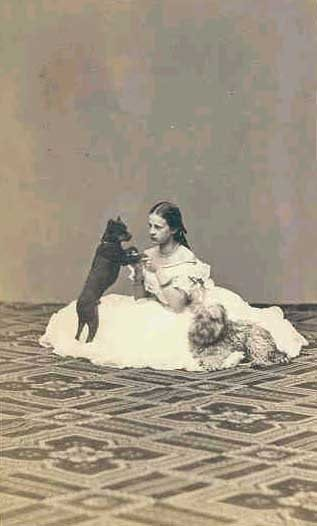 Archduchess Mathilde of Austria-Teschen (1849-1867)